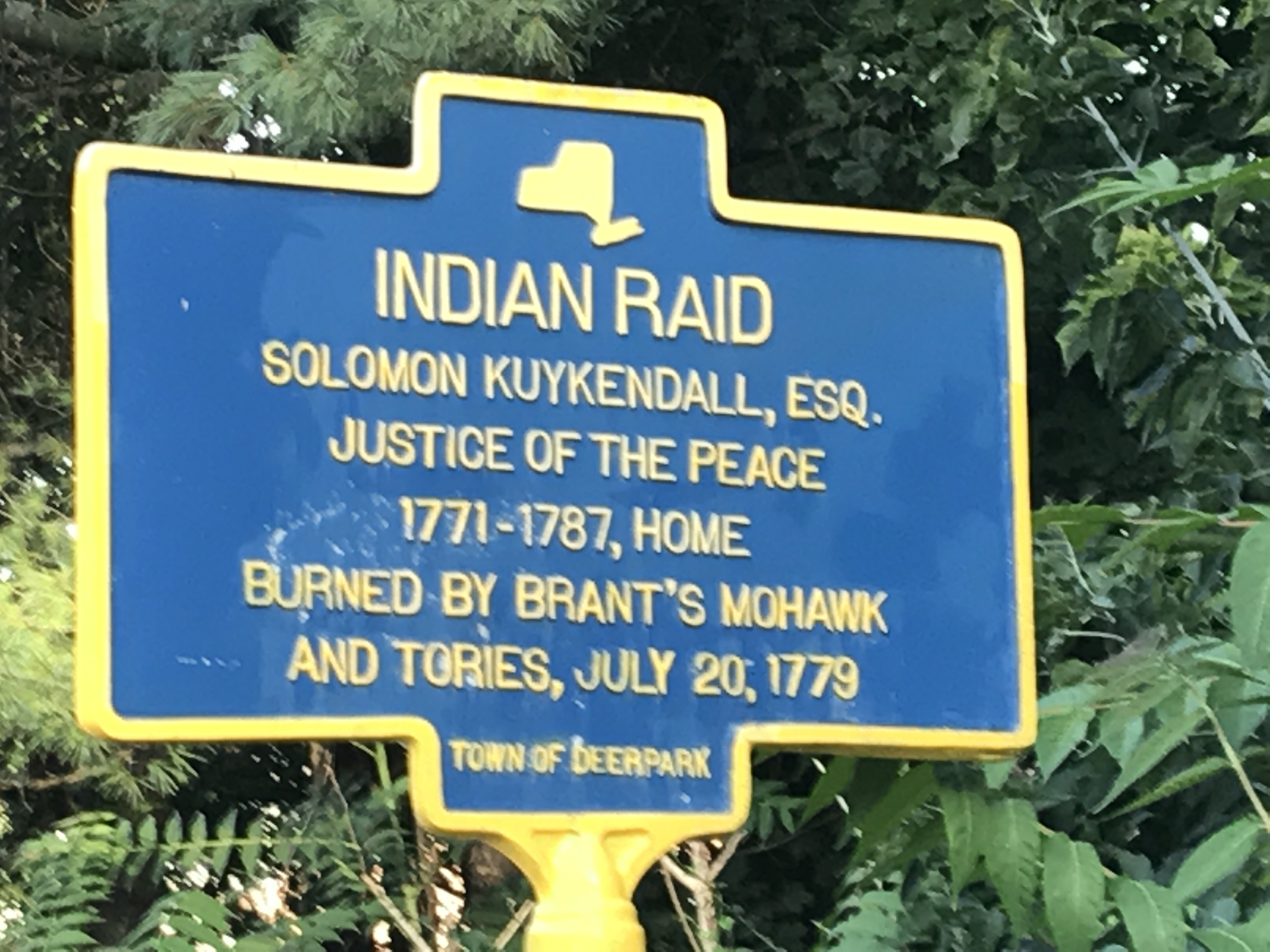 Historic marker on Neversink Drive Kuykendall house attacked and burned in Indian Raid, 1779, Town of Deerpark, Orange County, New York. Orange County CR80.